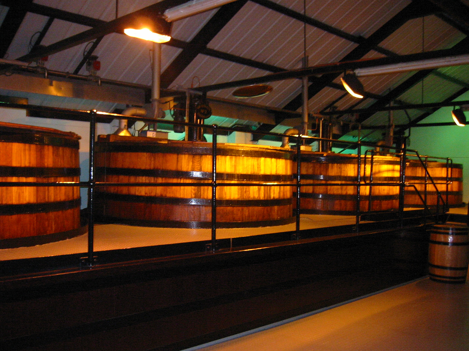 Washbacks at Auchentoshan, vessels for fermenting the wash. taken by User:Nicor